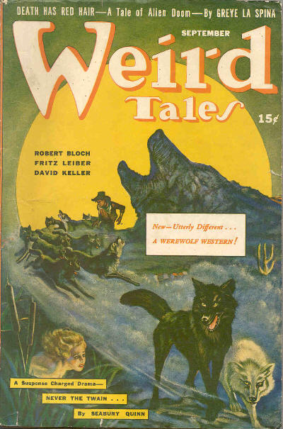 Cover of the pulp magazine Weird Tales (September 1942, vol. 36, no. 7) featuring Satan's Bondage ("a werewolf western") by Manly Banister. Cover art by A. R. Tilburn.